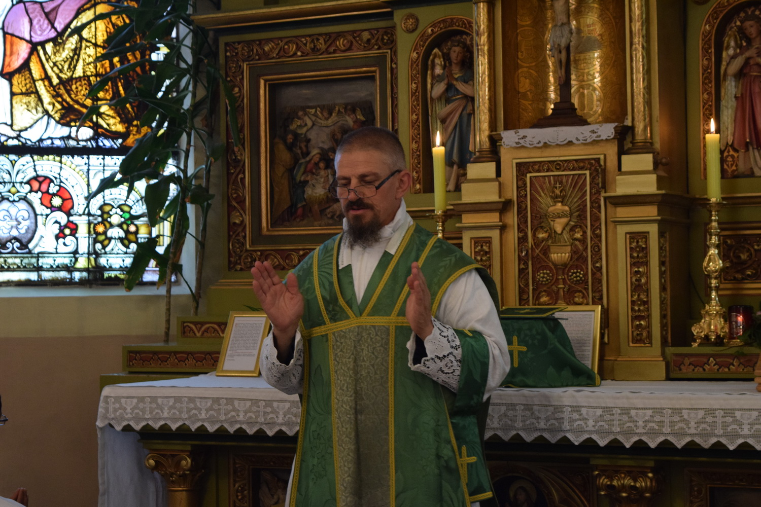 Fr. Antony Sumich FSSP, celebrating the Tridentine Mass in Zagreb, Croatia